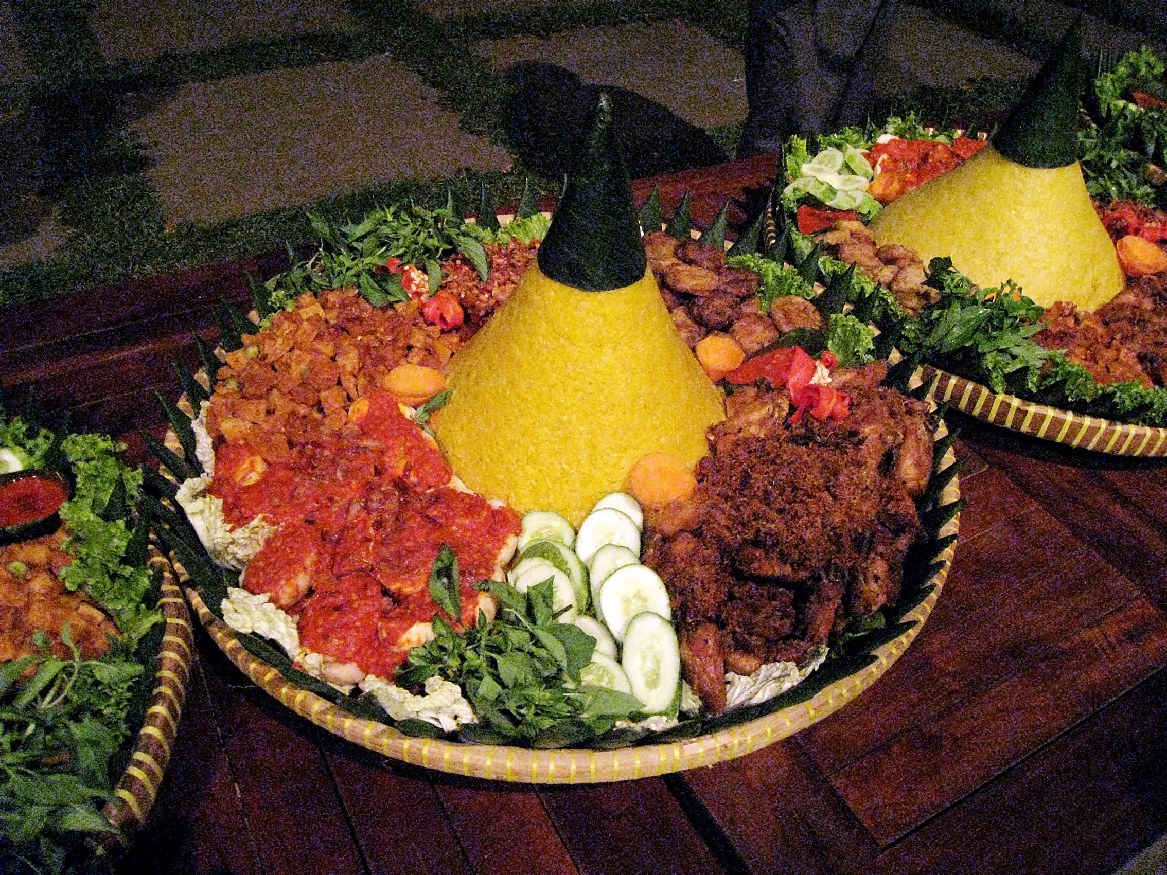 Tumpeng, cone shaped yellow rice surrounded by assortment of Indonesian dishes, during IGDA (Indonesian Graphic Design Award). Salihara, Jakarta.